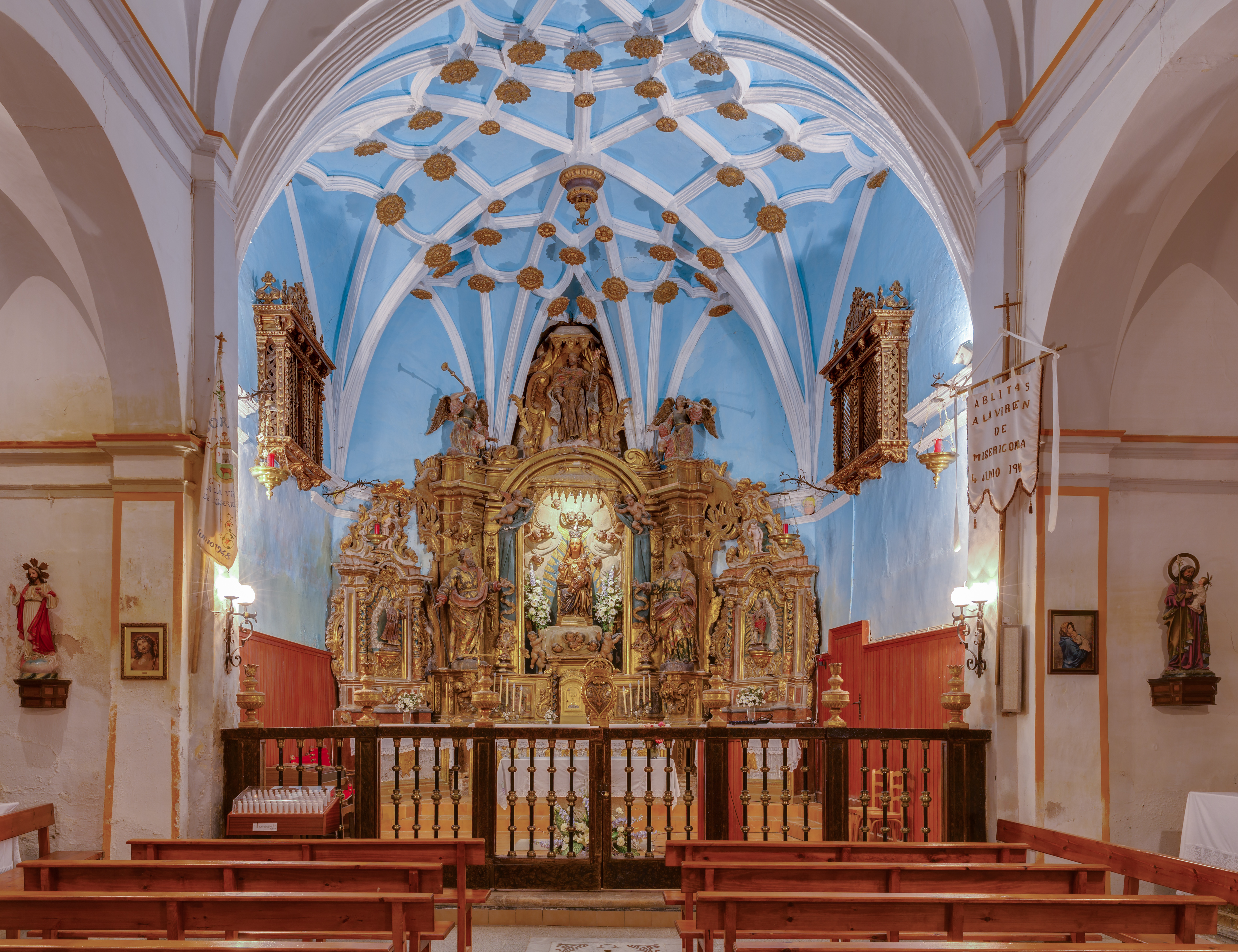 Sanctuary of Mercy, Borja, Zaragoza, Spain